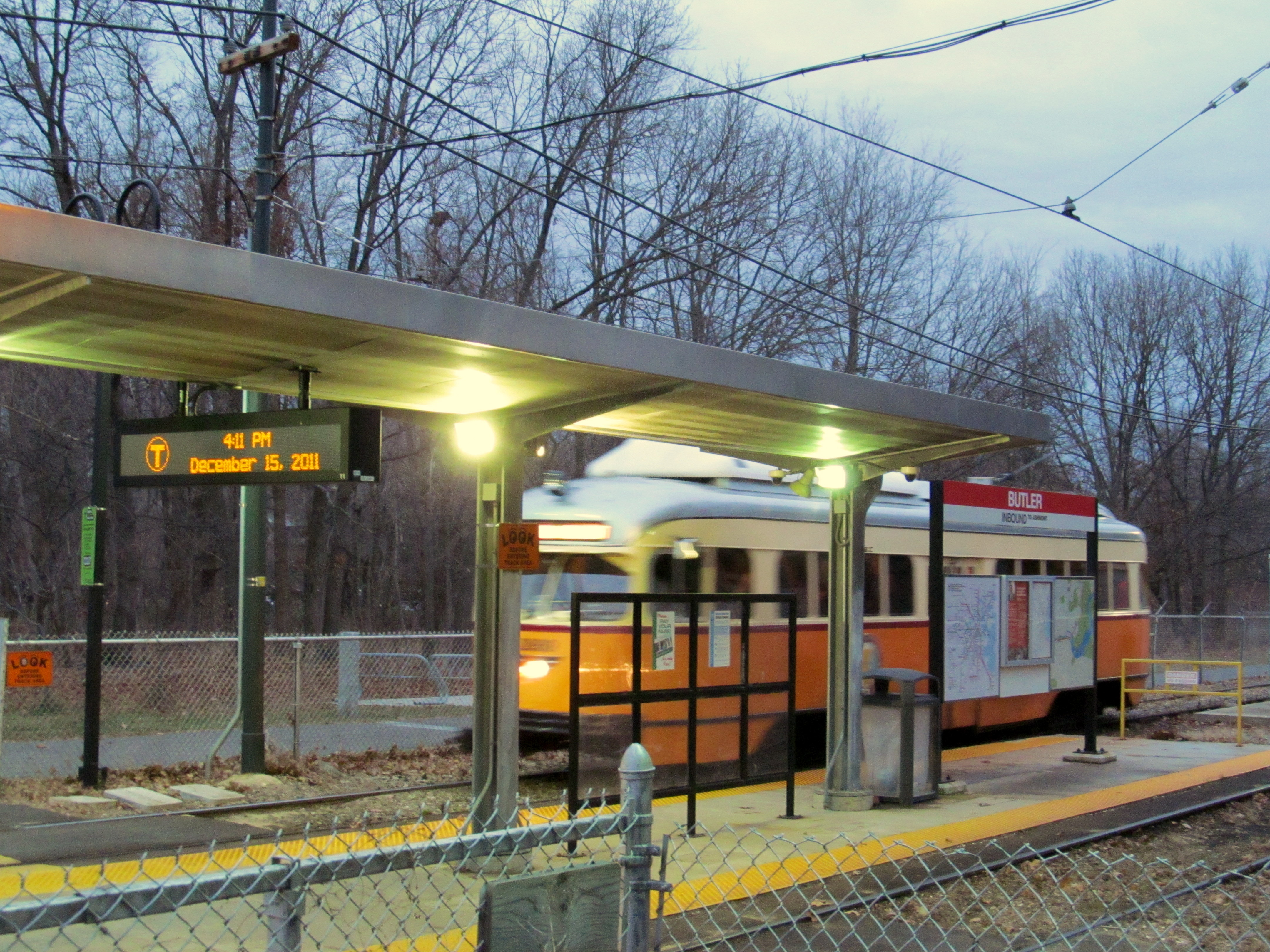 Outbound PCC car at Butler station